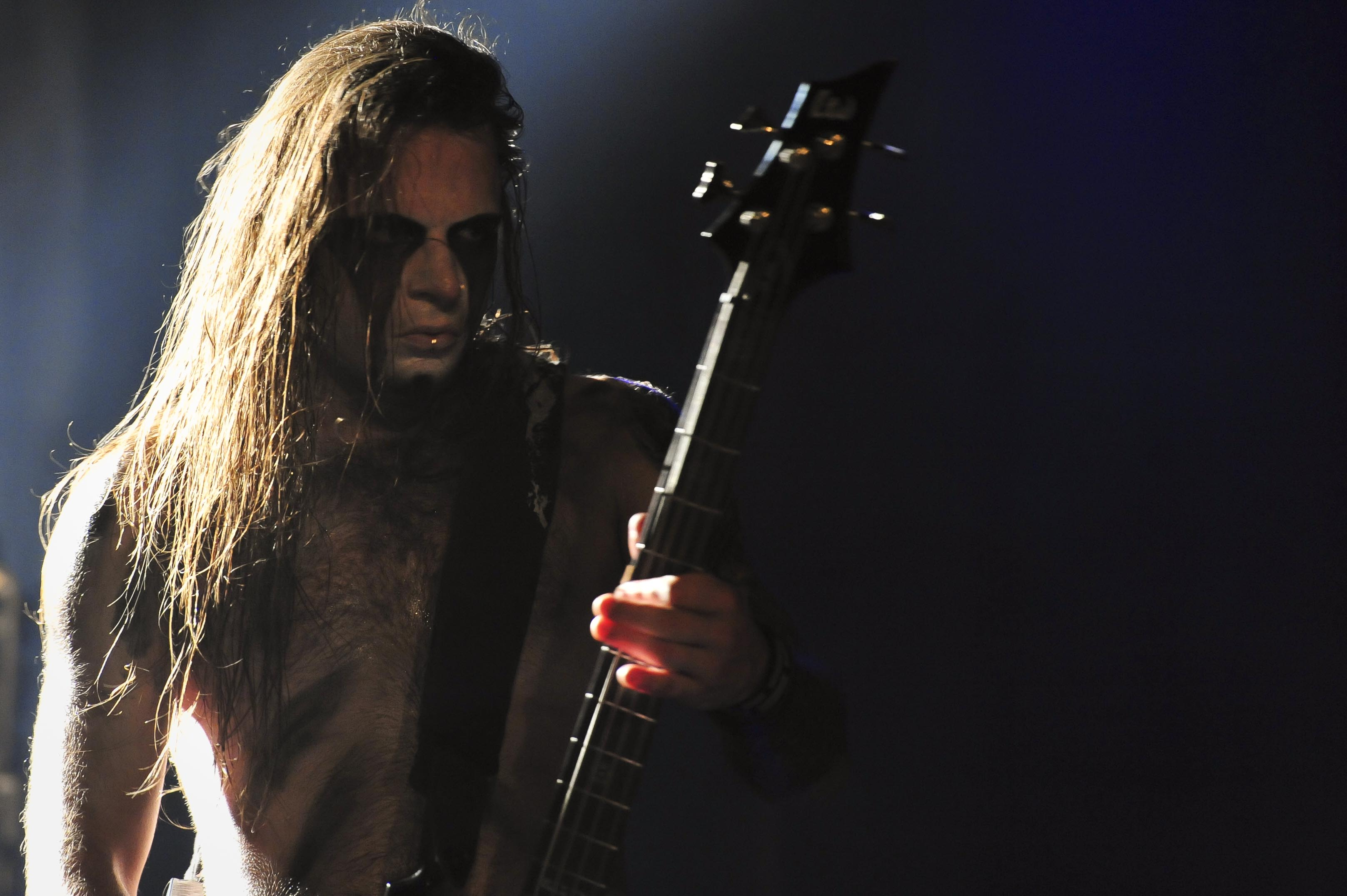 September 23 2011, Grand Vennes Lausanne, Switzerland. Was there with Mr. Blueandwhitehoops, who unfortunately was sick...